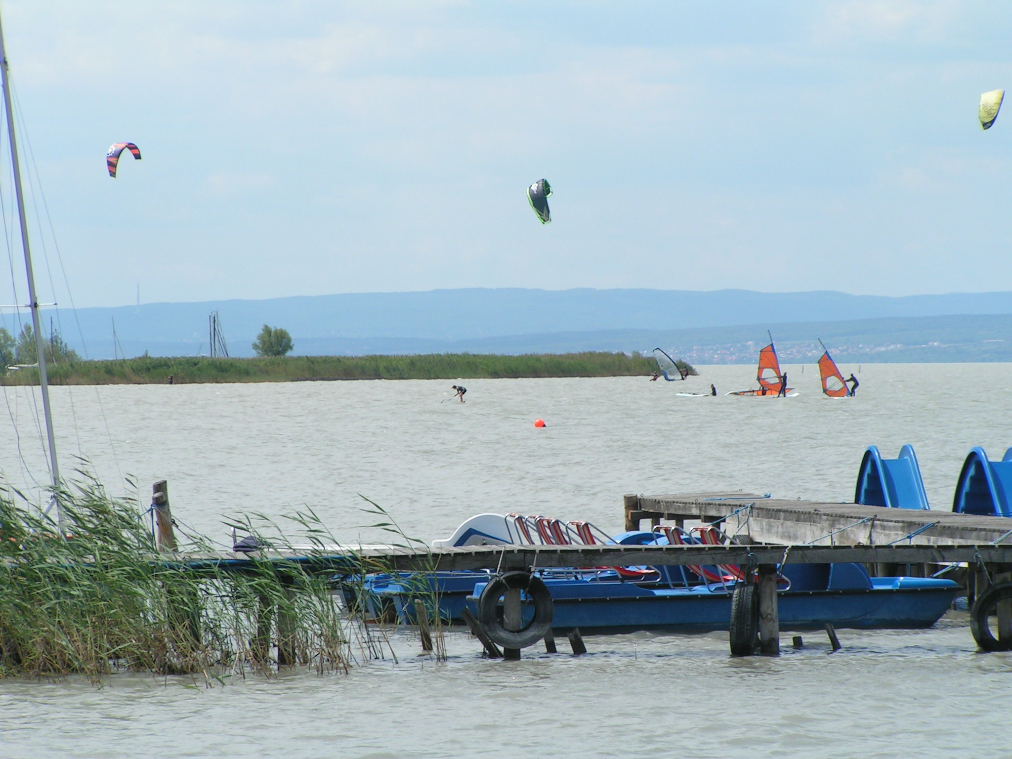 Wassersportler am Podersdorfer Strand